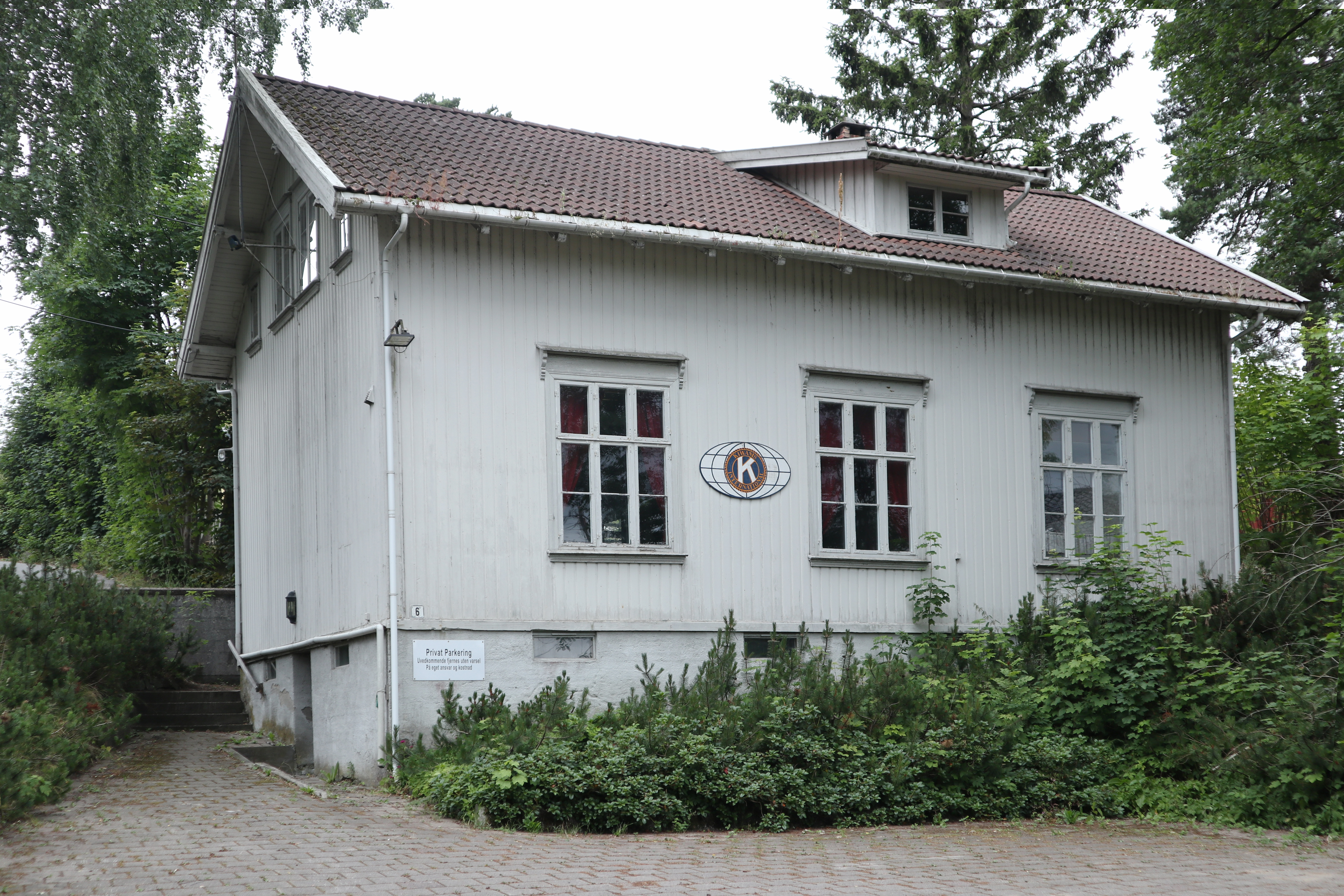 Losjehuset v Ormetjern i Arendal